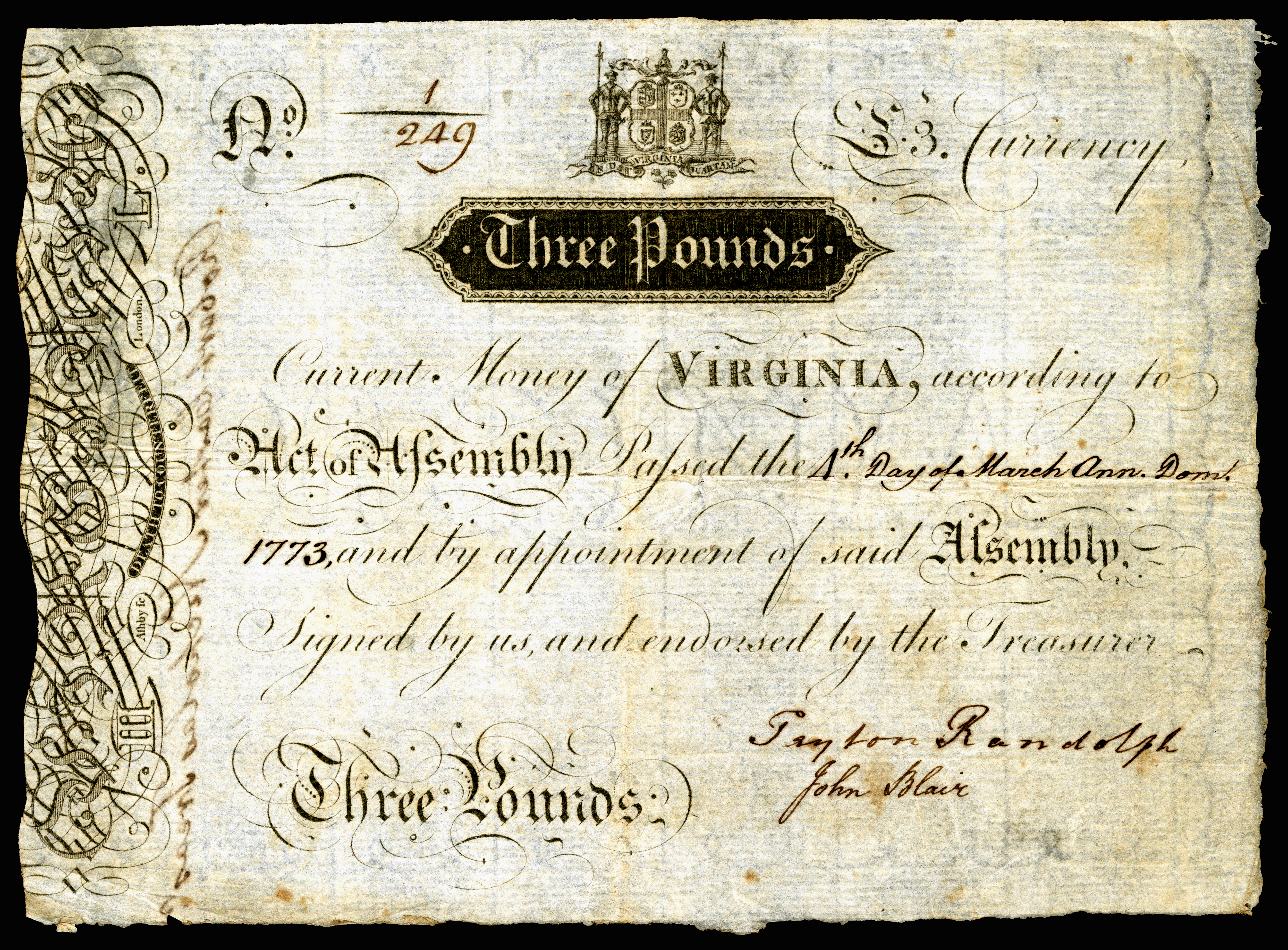 £3 Colonial currency from the Colony of Virginia. Signed by Peyton Randolph and John Blair, Jr.. (Friedberg Colonial ref# VA-69).